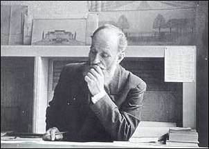 Photograph of the Dutch architect Piet Kramer.